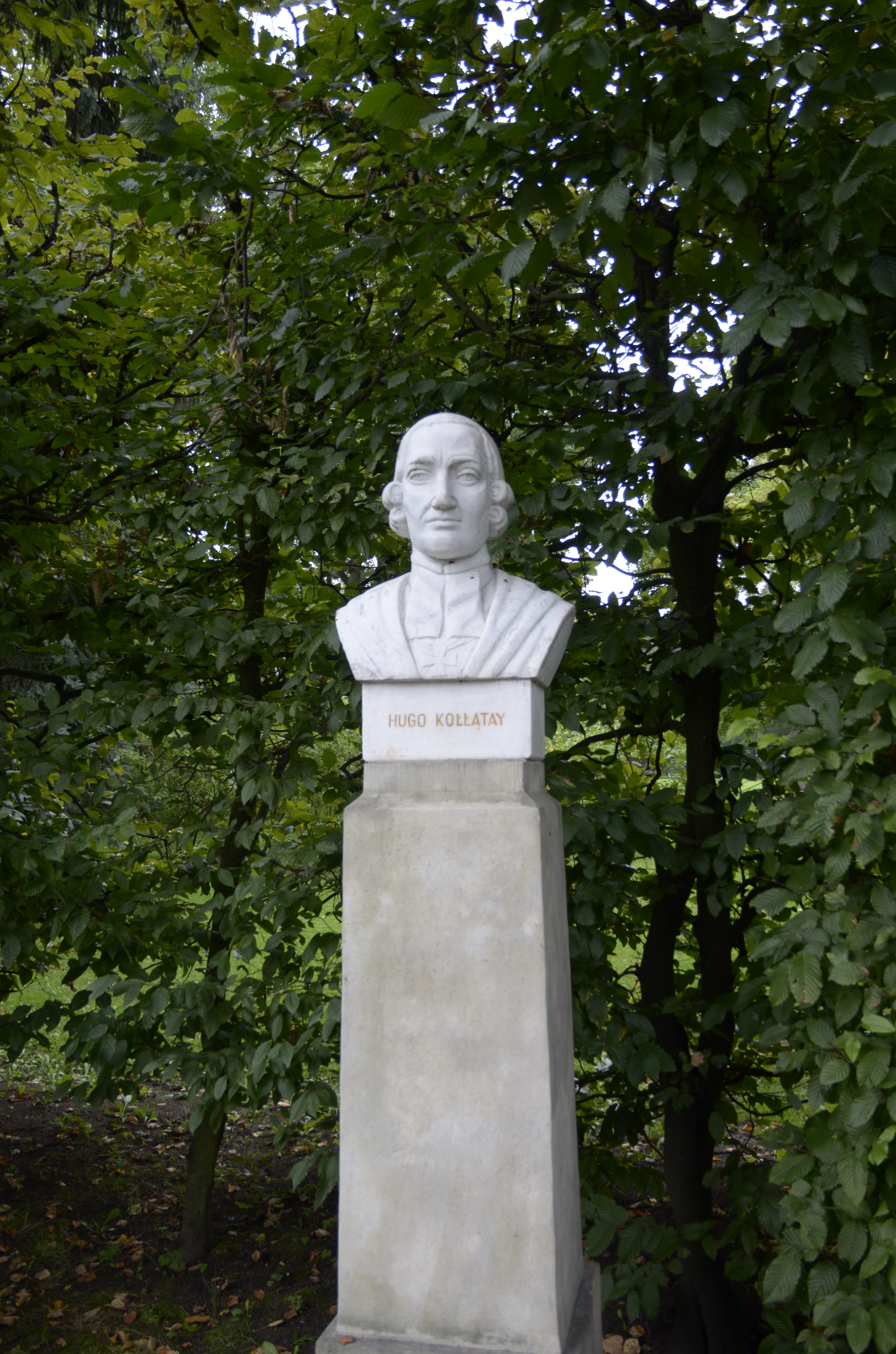 A bust of Hugo Kołłątaj, Zofia Baltarowicz-Dzielińska